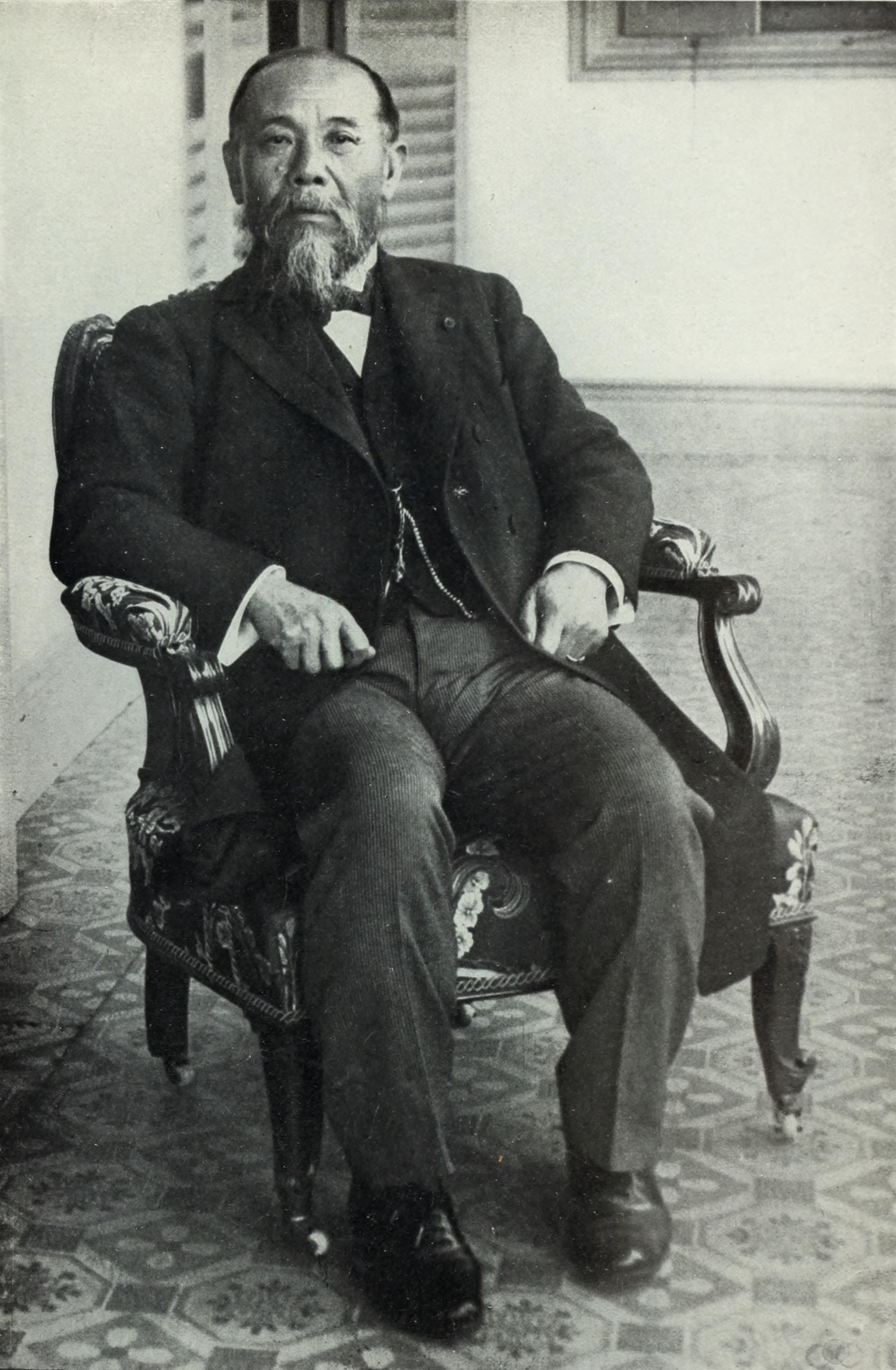 Picture of Hirobumi Itō